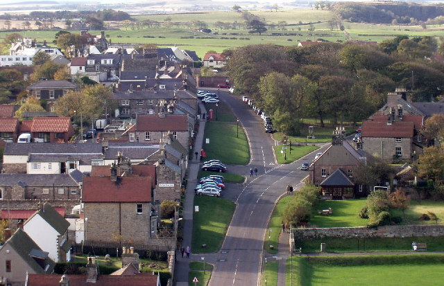 Bamburgh. The village seen from the castle ramparts